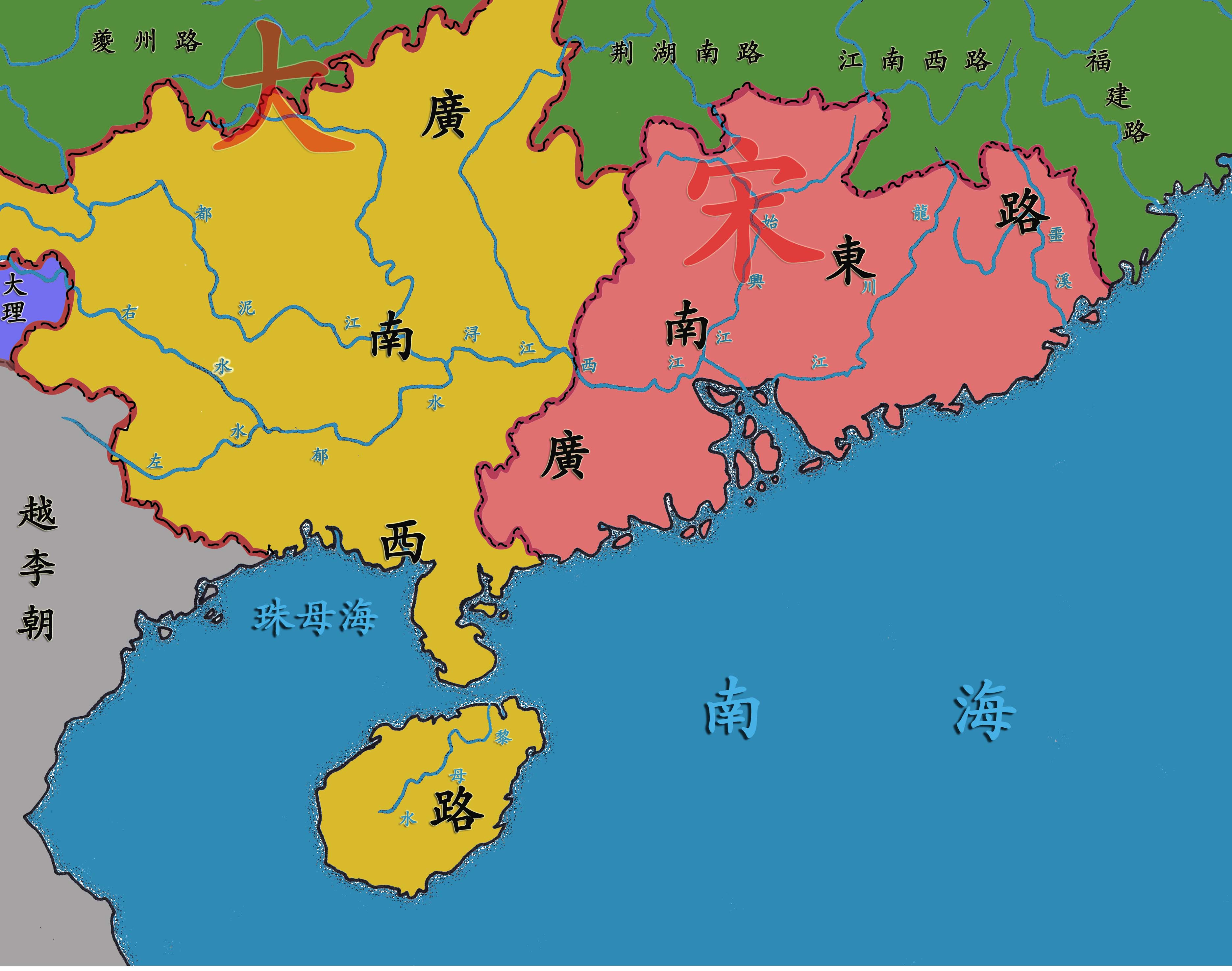 Map_of_Hainan_History.jpg